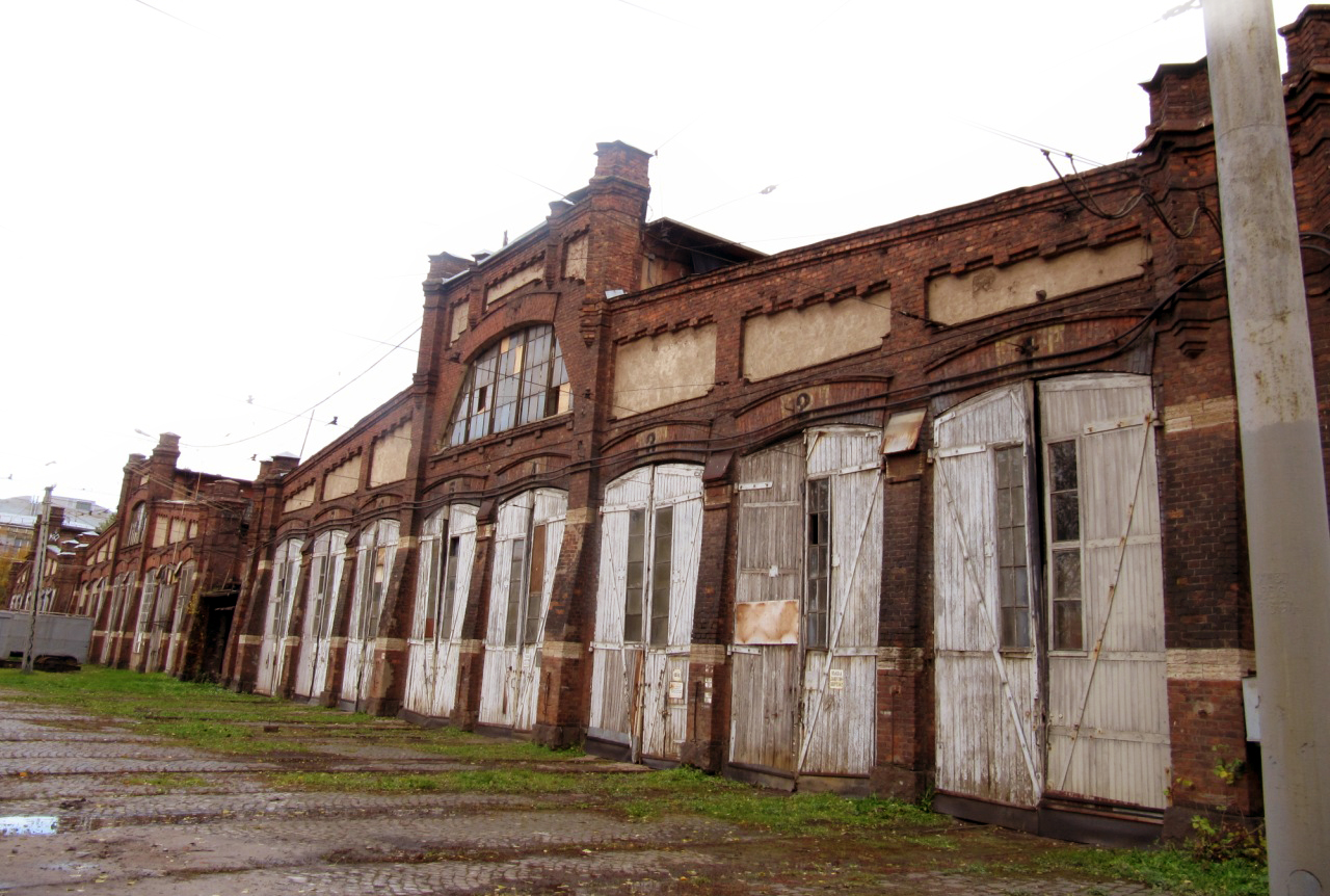 Vasileostrovskiy tram-park Facade-3